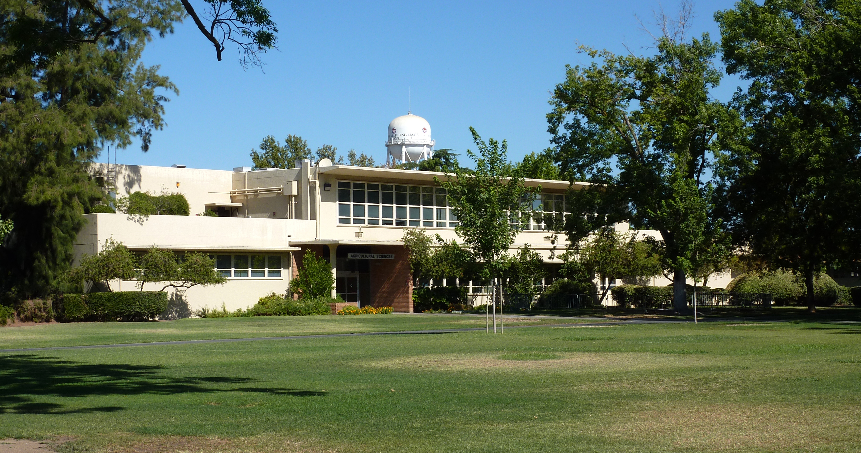 Agriculture Building, Fresno State, Fresno, California, USA.